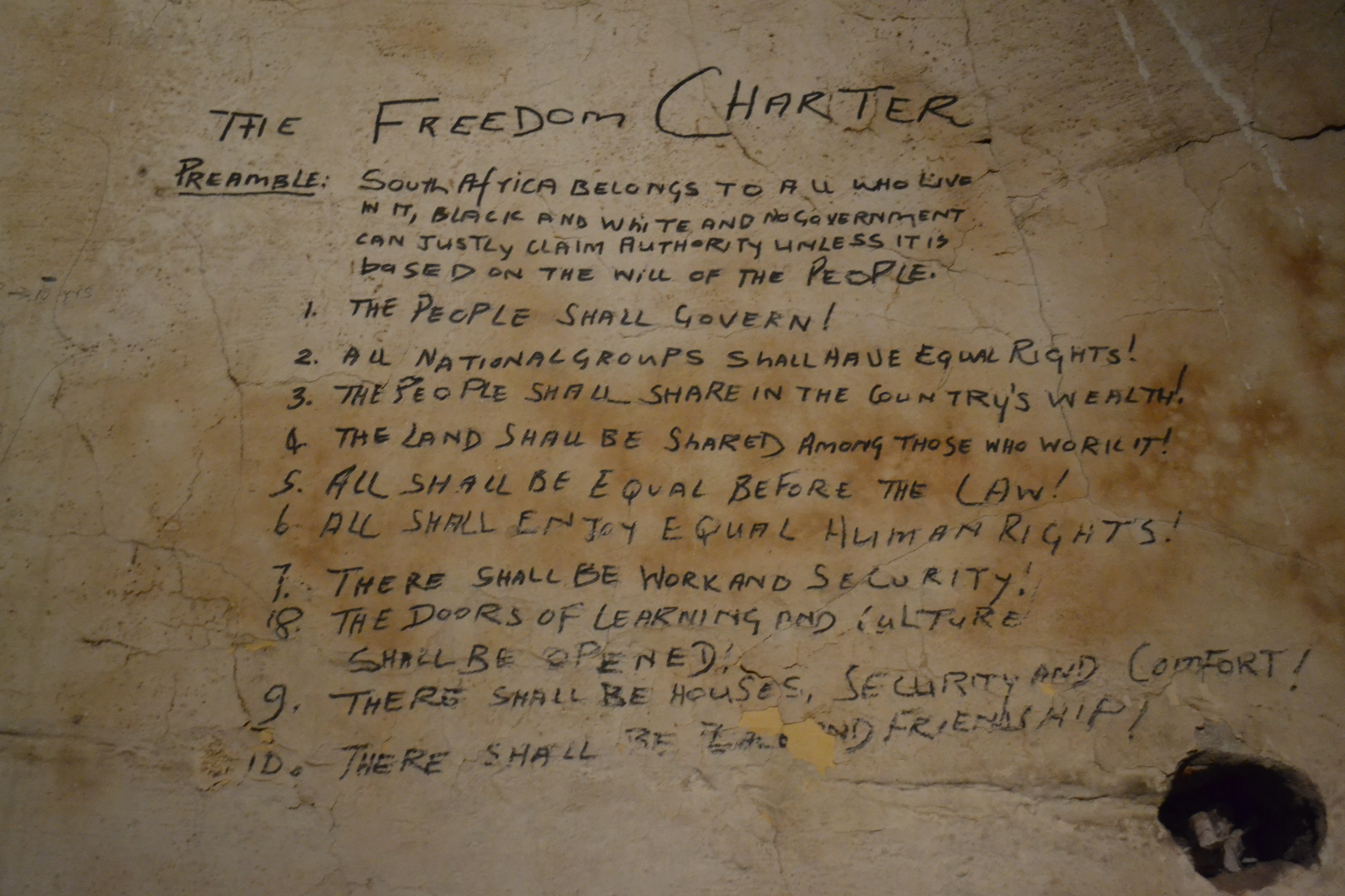 The Freedom Charter wrote on the wall Palace of Justice (S Wierda) 1902 Church Square Pretoria